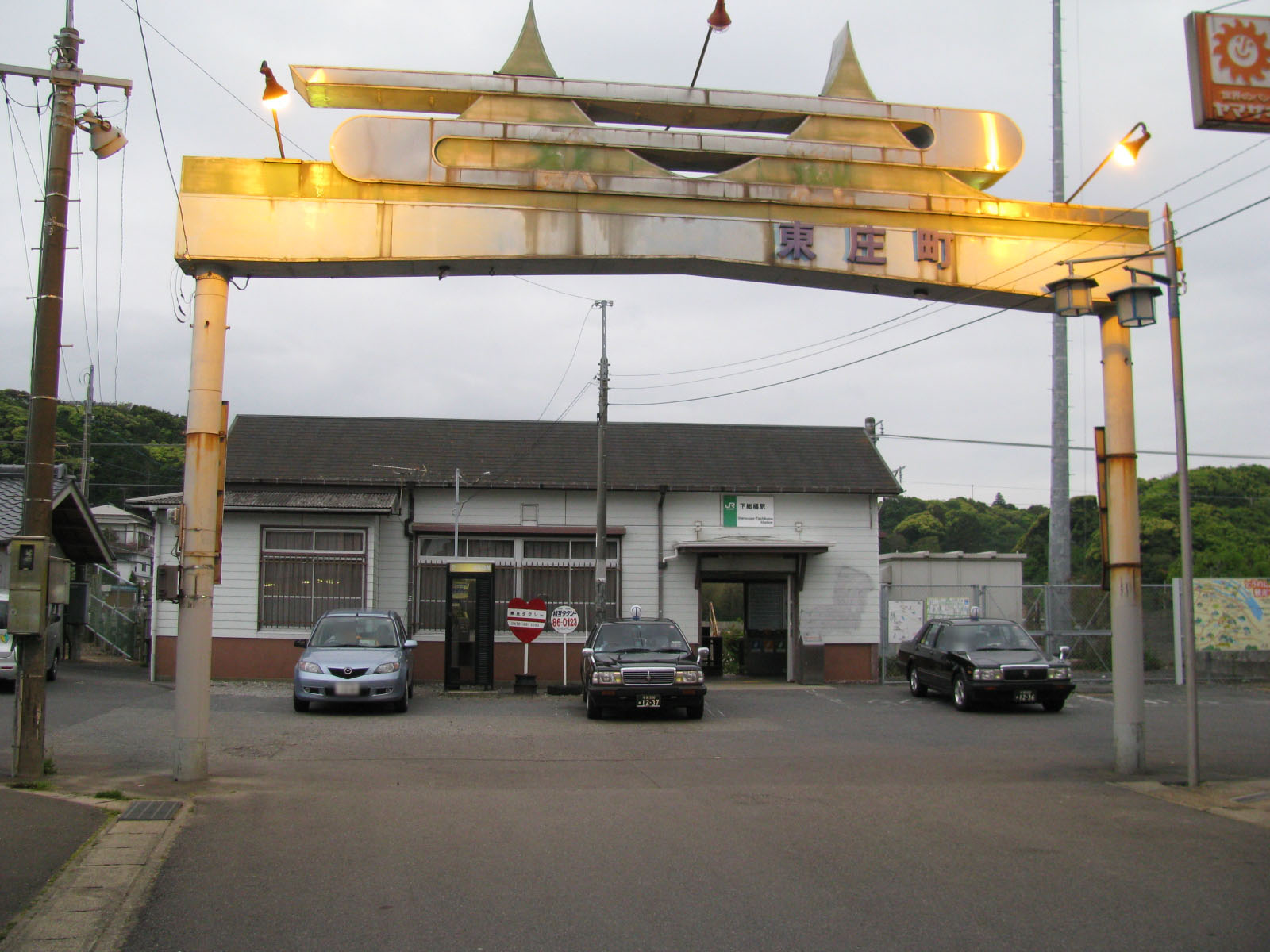 Shimosa-Tachibana Station